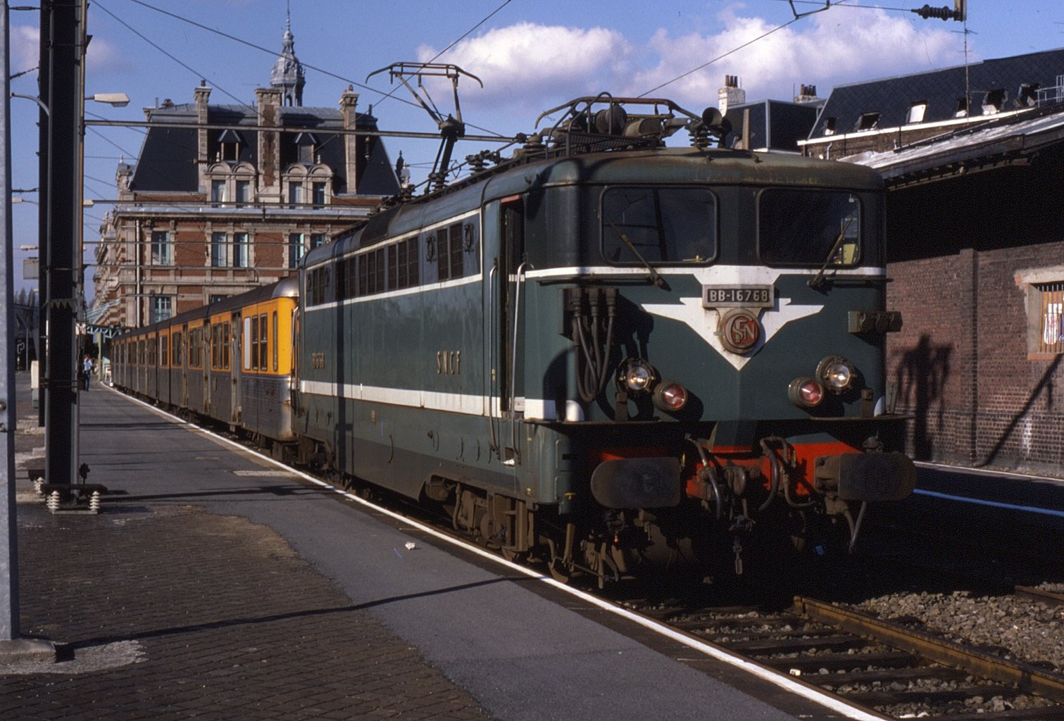 Seen at Valenciennes, a sight so common in Northern and Eastern France of a class BB16500 and "rio" push-pull stock. The loco seen here is BB16768 taken on 10 April 1987.